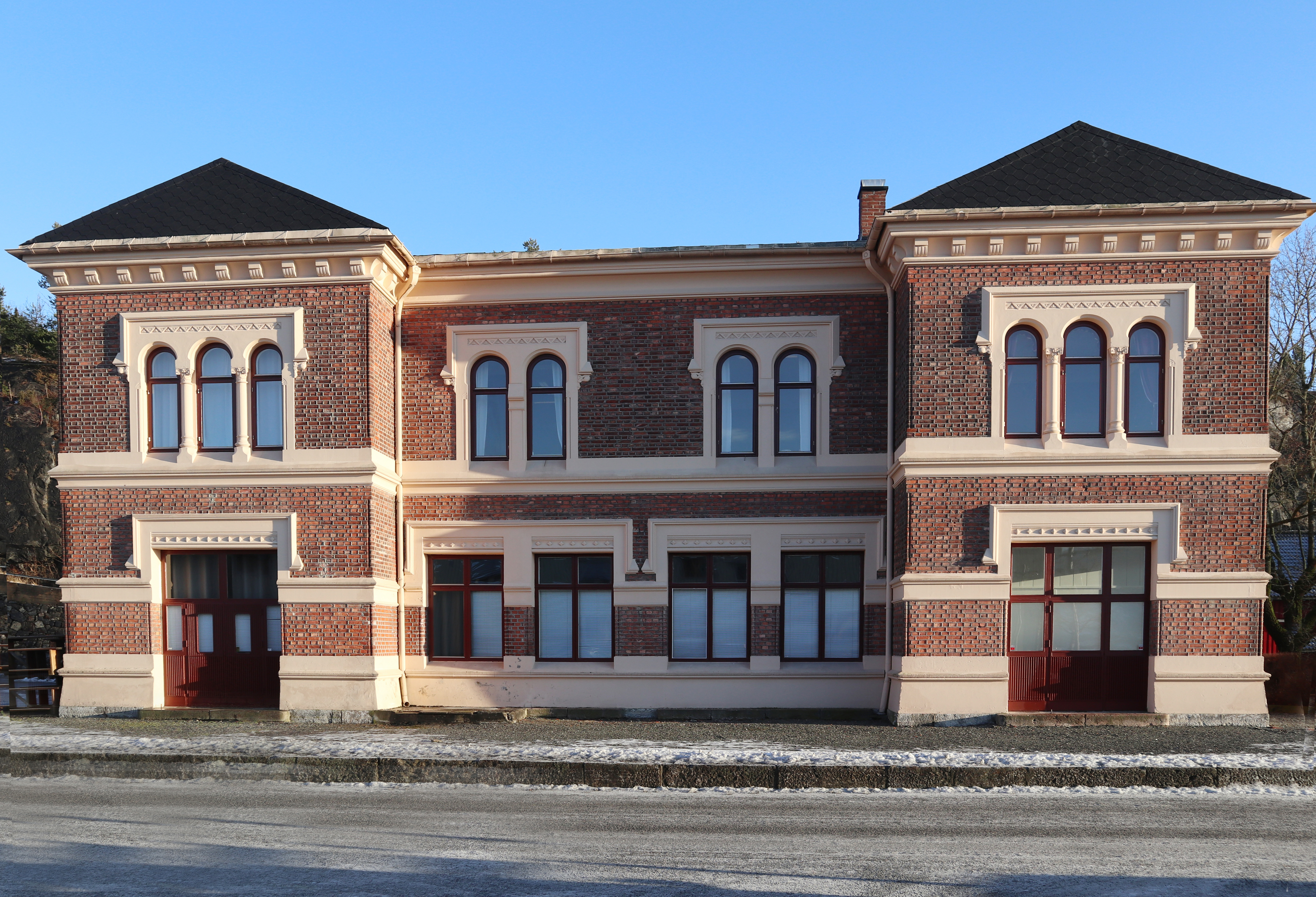 Railway Station Brevik 1895